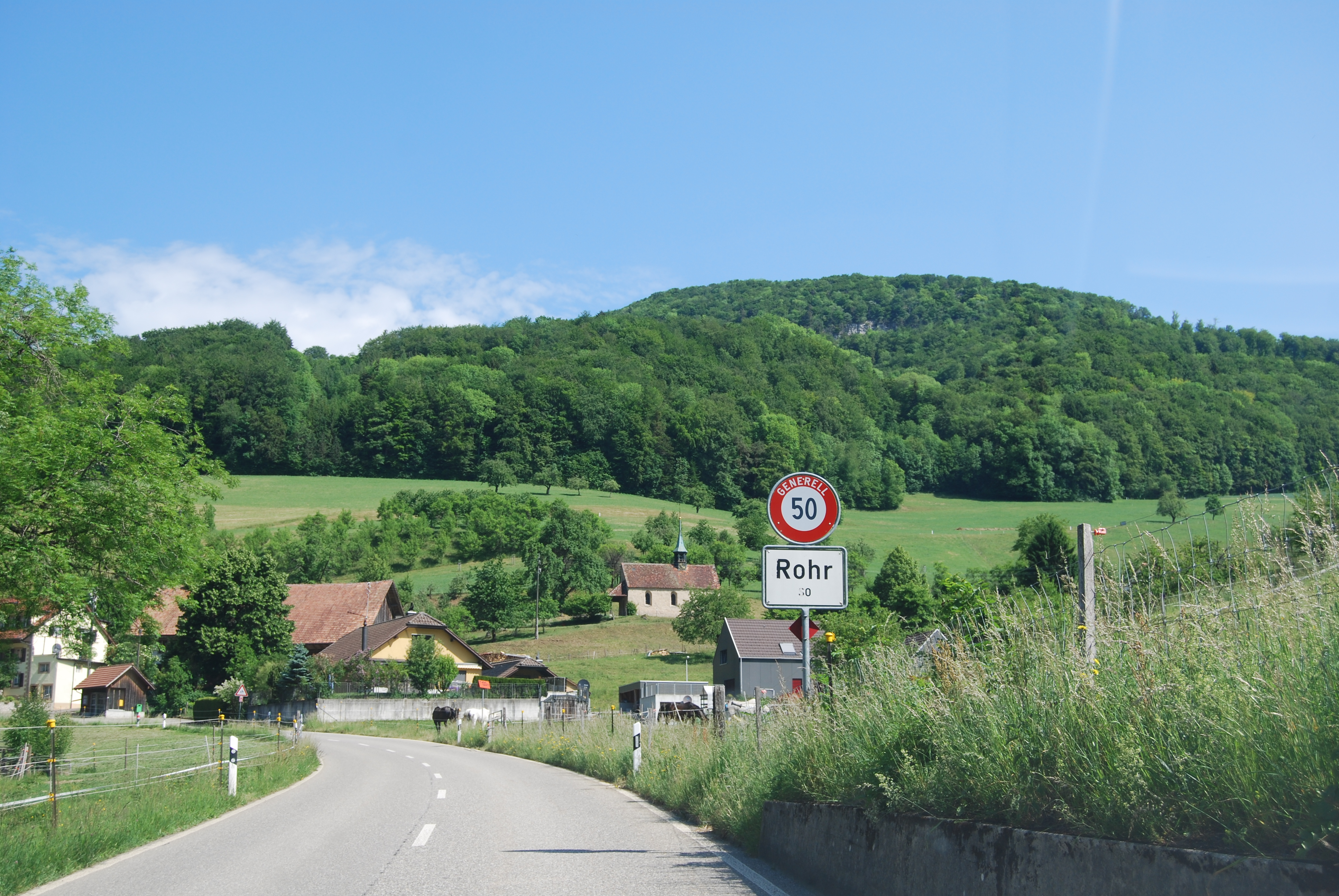 Rohr, canton of Solothurn, SwitzerlandEsperanto: Rohr, Kantono Soloturno, Svislando